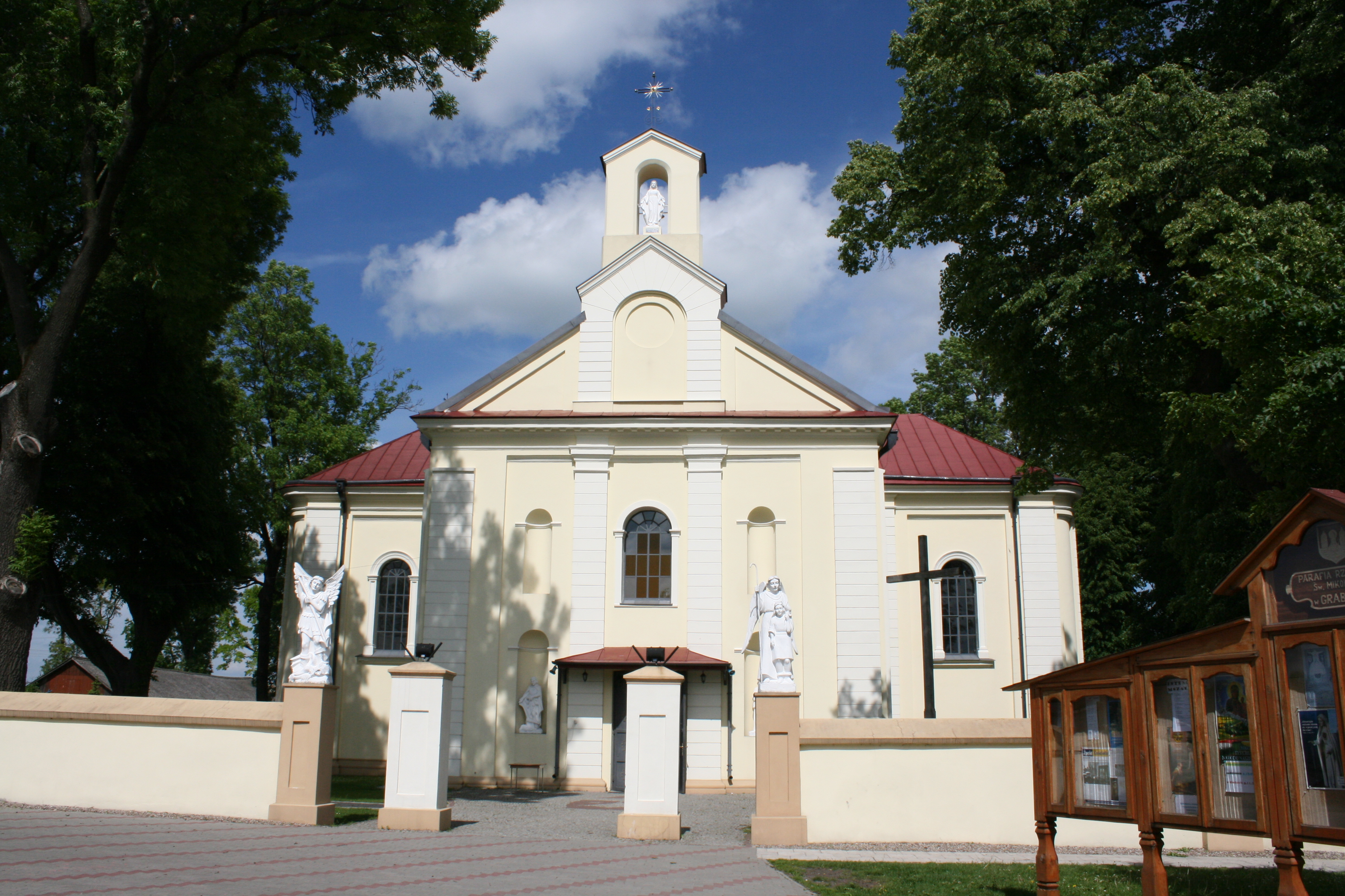 Church in Grabowiec